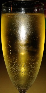 A champagne glass full of "Poiré de Normandie" (pear wine/cider from Normandy, France).